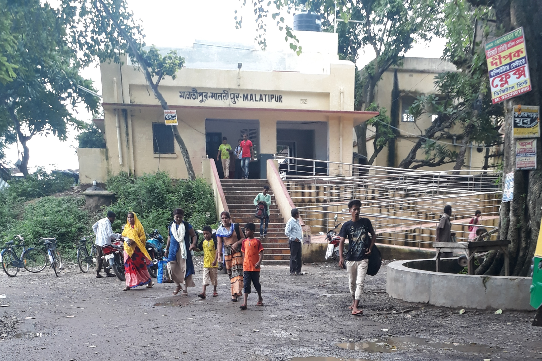 Malatipur railway station in Barasat - Hasanabad line. North 24 Parganas.